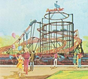 Advertisement for Jumbo Jet roller coaster at Cedar Point.